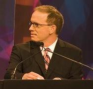 Mayor of Pittsburgh Luke Ravenstahl debates Republican challenger Mark DeSantis at the mayoral debate held at Point Park University on October 30th. The debate came seven days before the elections.